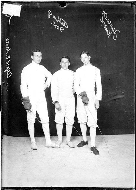 A. F. L. A. fencers Arthur A. Fox, E. Sauer, and J. W. Knox holding foils, standing in front of a dark backdrop Fencers Alfred E. Sauer (left), Arthur G. Fox (middle) and James W. Knox (right).